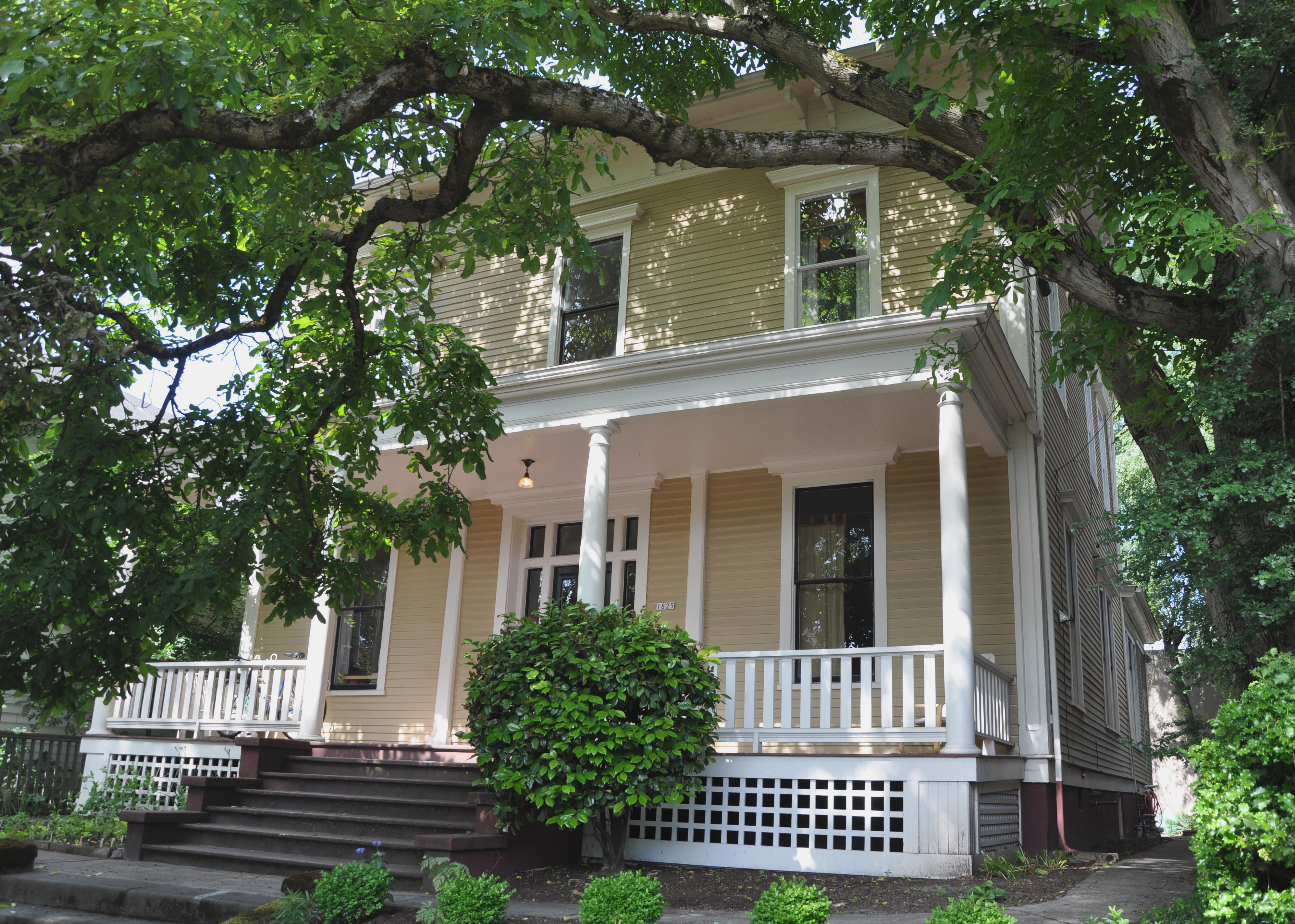 James B. Stephens House in Portland in the U.S. state of Oregon. The structure is listed on the National Register of Historic Places.